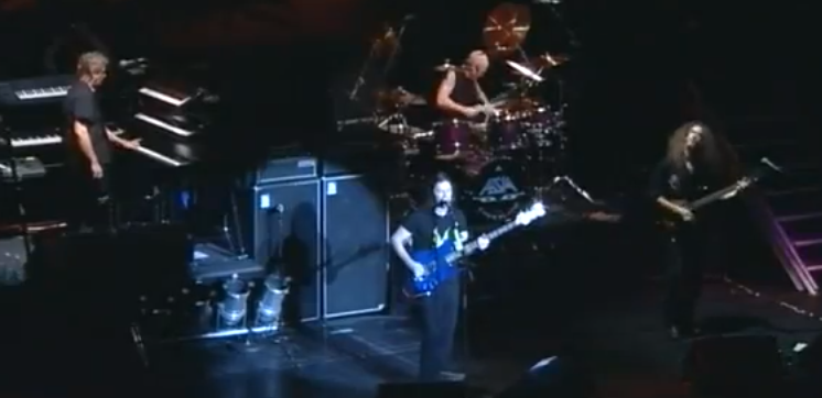 A picture of Asia in 2001.